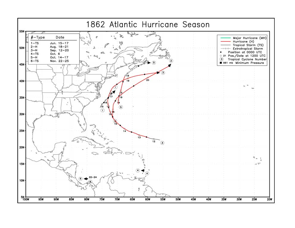 Season summary provided by NOAA of the 1862 Atlantic hurricane season.